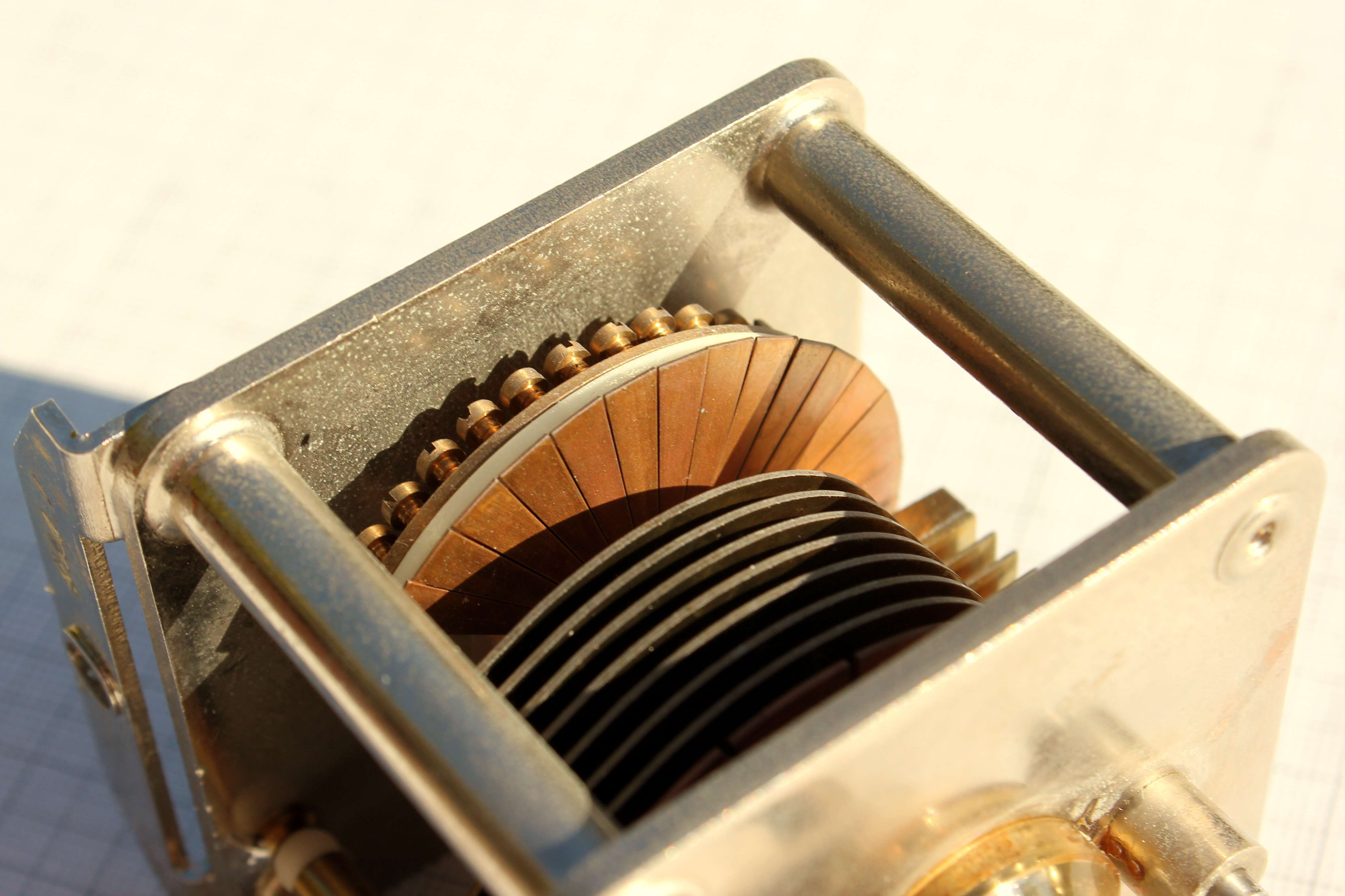 Trimmable tuning capacitor